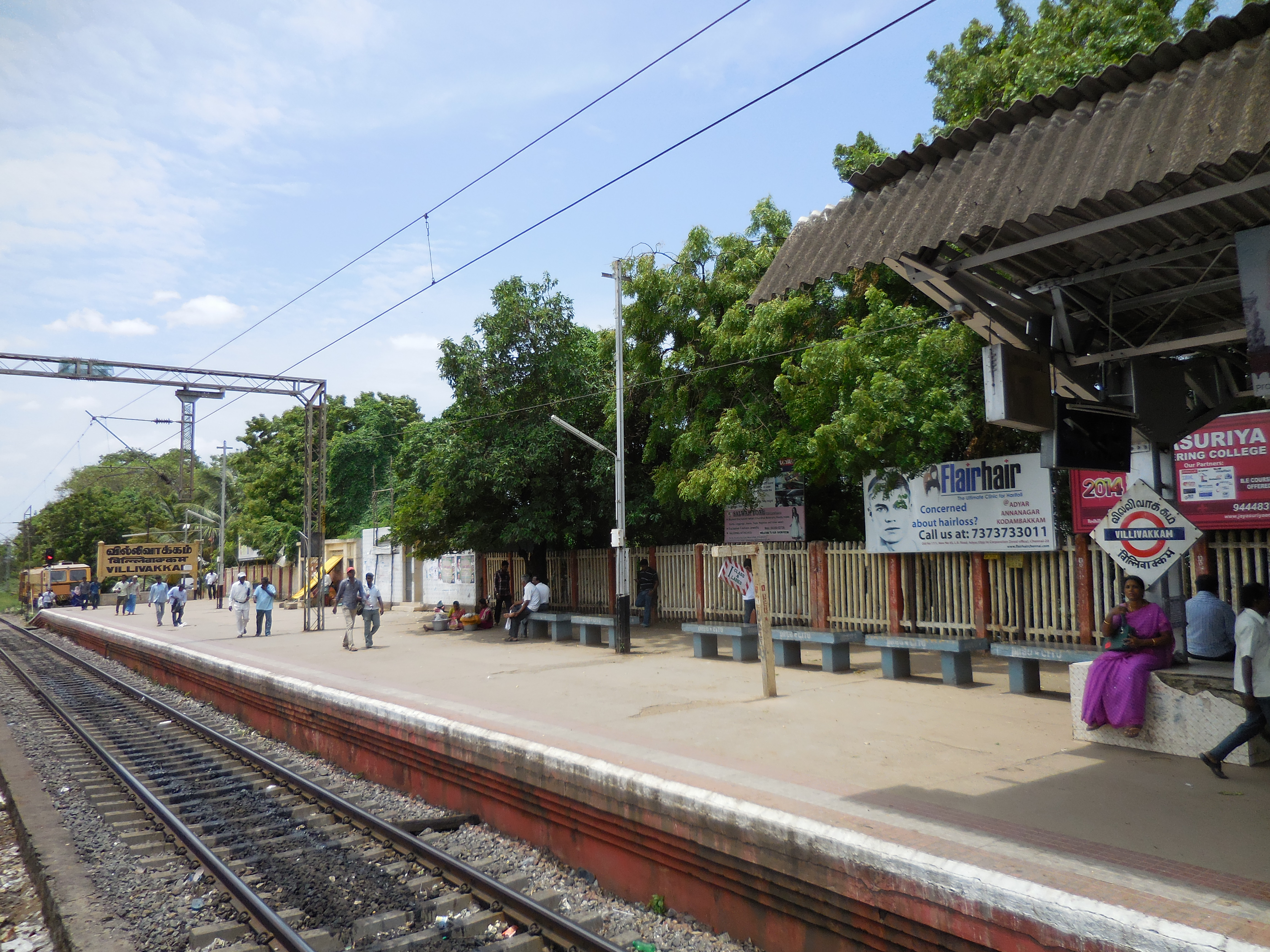 Villivakkam railway station, Chennai, towards east, taken on 15 July 2014 at noon.